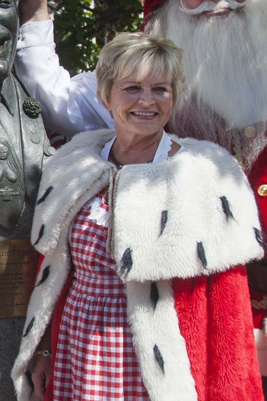 World Santa Claus Congress (Julemændenes Verdenskongres) in the amusement park Bakken north of Copenhagen. The musician Hilda Heick became the honour Santa Claus of the year together with her house bond Keld Heick.